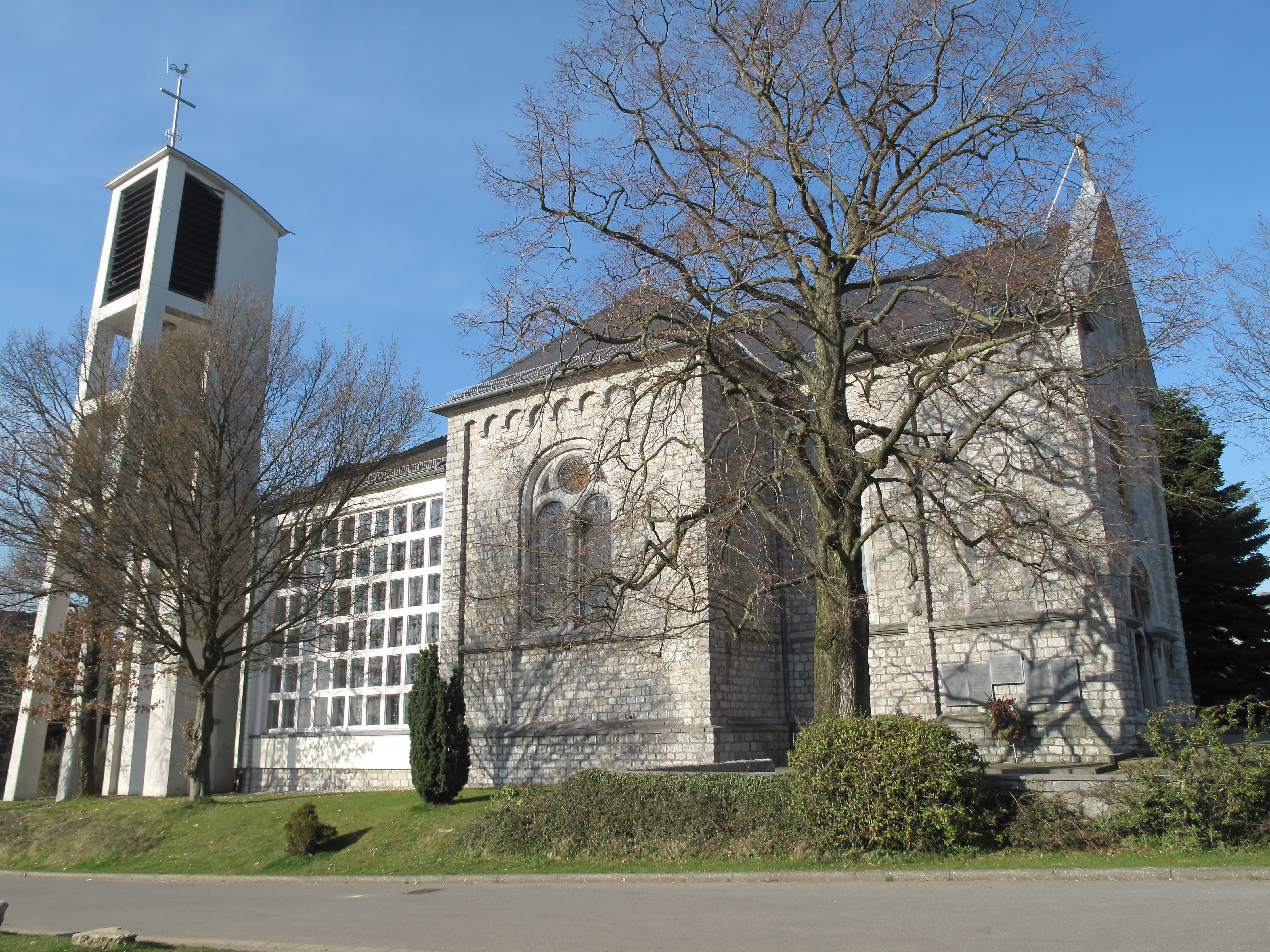 St. Josef, Schmithof-Sief, church